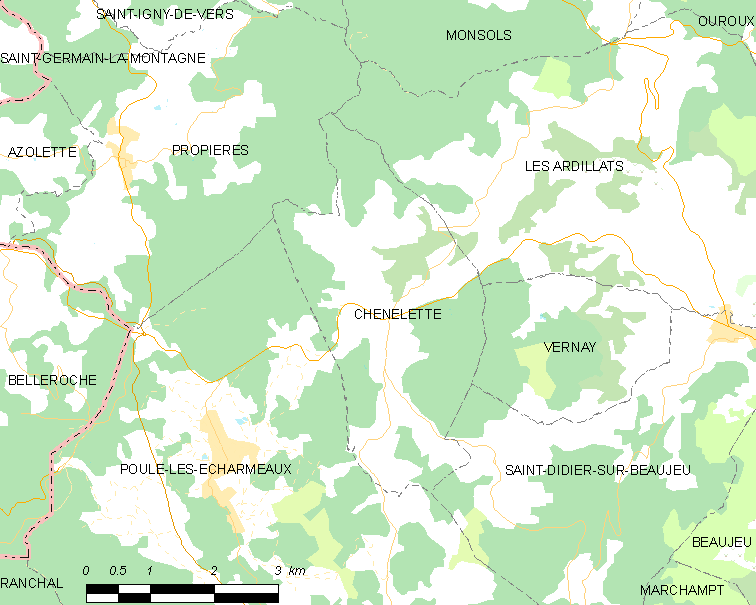 Map of French municipality